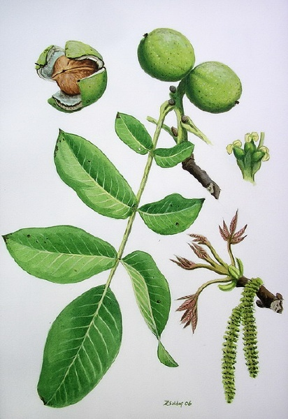 Juglans regia